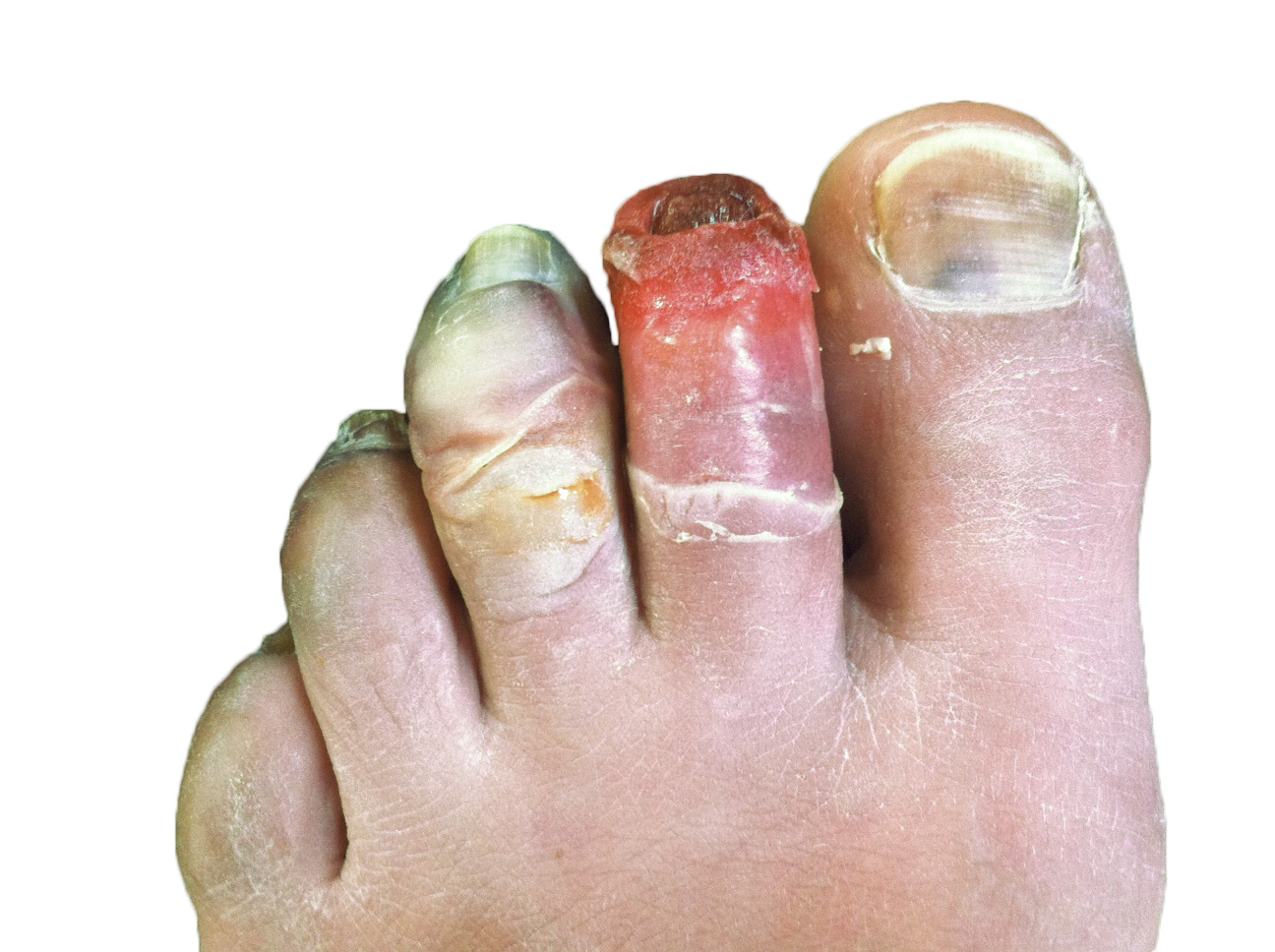 Frost bite 12 days after